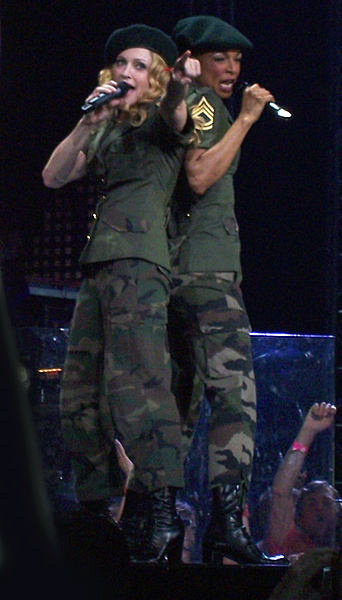 Concert